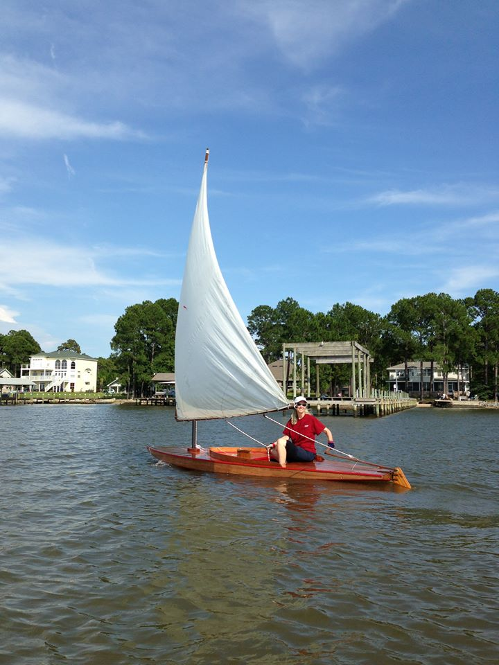 1953 wooden Sunfish sailboat